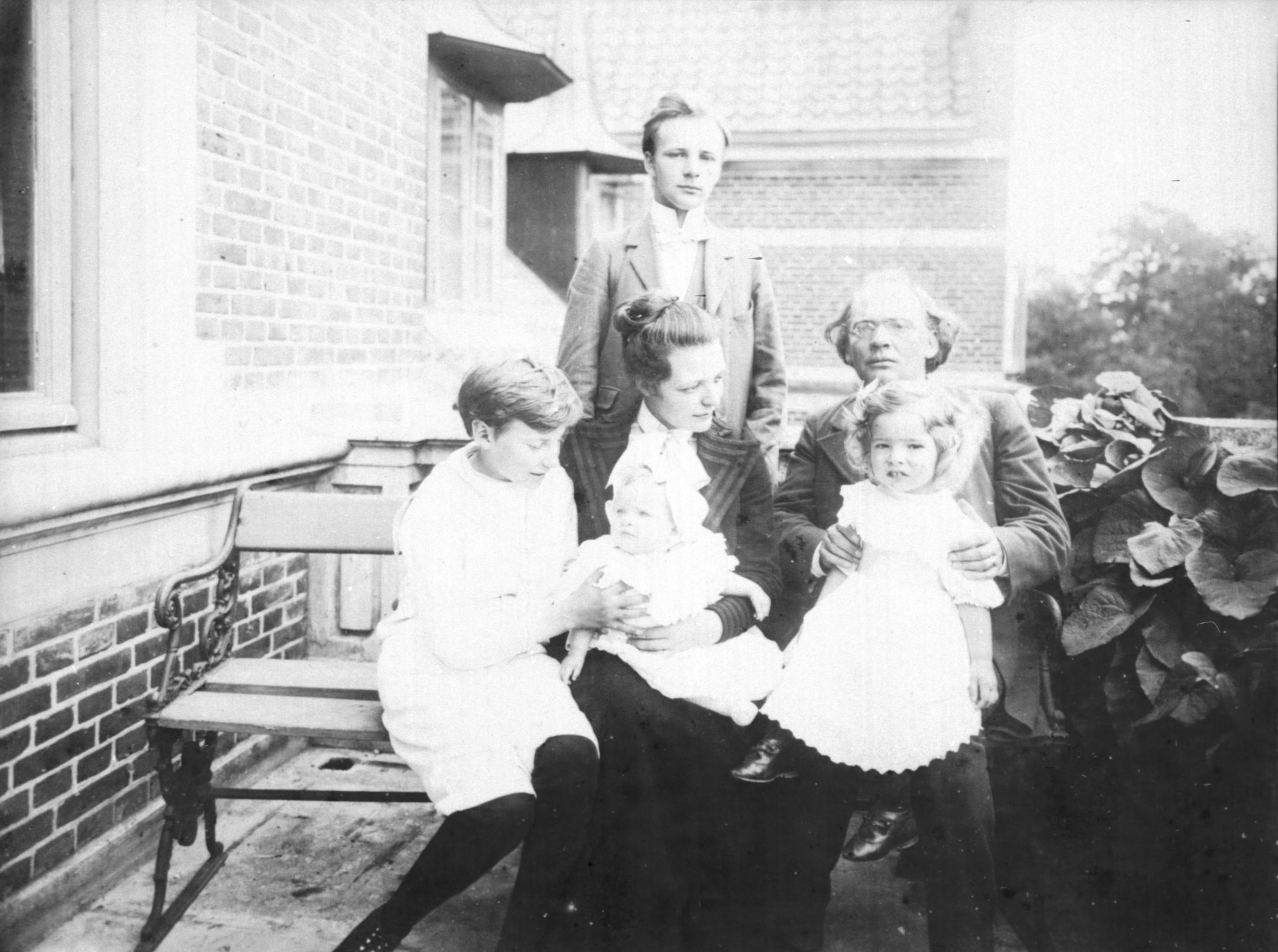 Artist: unknown Date/place: unknown Subject: Julius Röngten with family Medium: photographic positive, B&W Notes: none Persistent URL: [#//bergenbibliotek.no/digitale-samlinger//engelsk/-intro-eng” Original belongs to the Edvard Grieg Archives at Bergen Public Library] Original reference: EGM0337